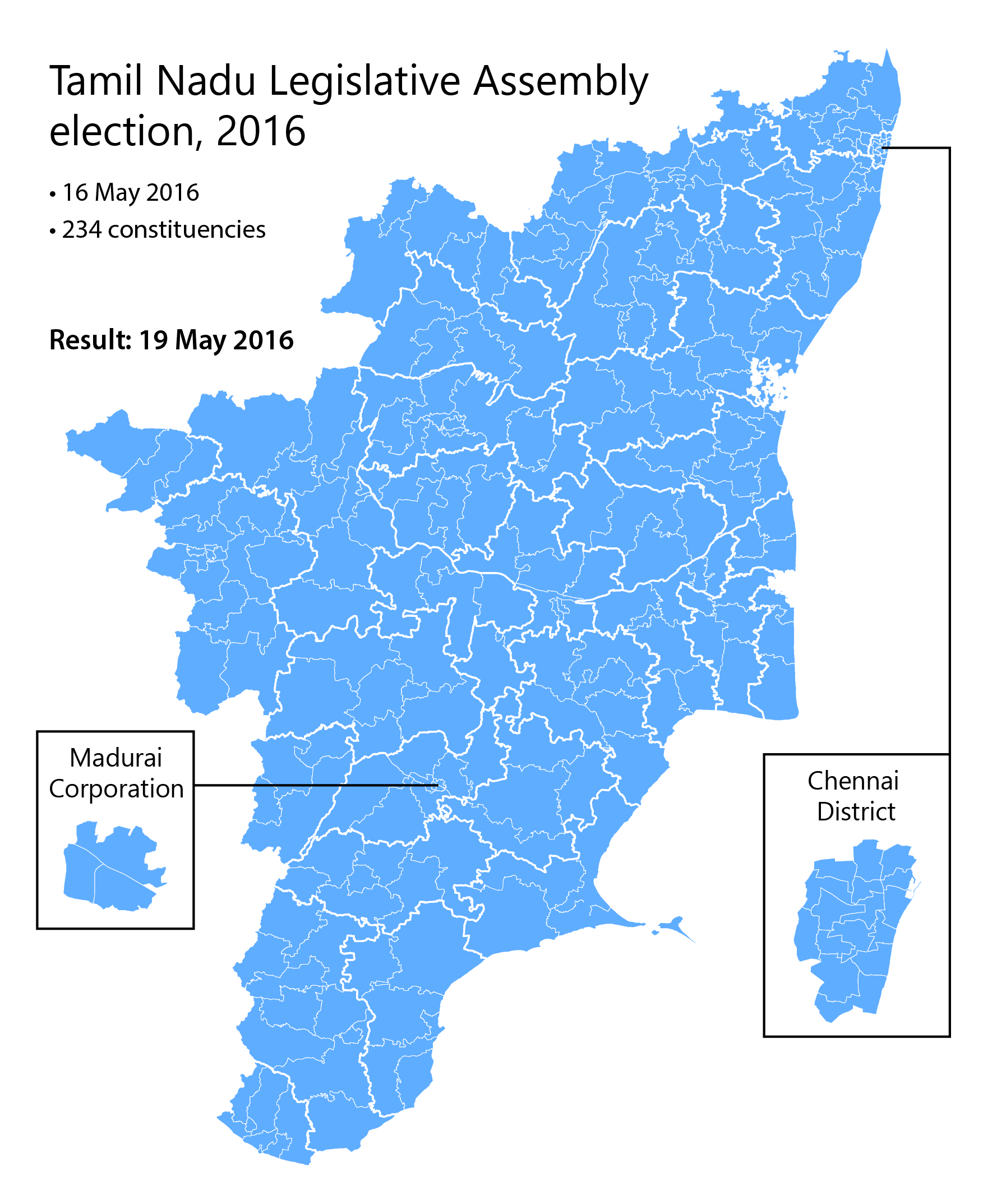 Image of information regarding the Tamil Nadu Legislative Assembly election 2016.